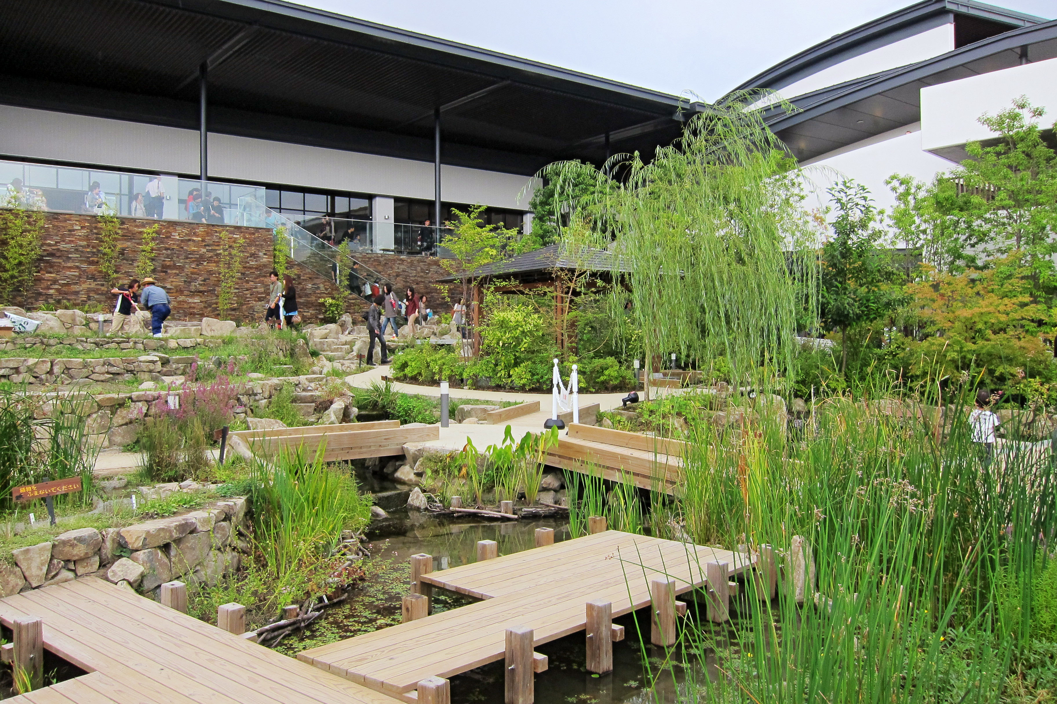 Kyoto Aquarium (京都水族館), Kyoto, Kyoto prefecture, Japan